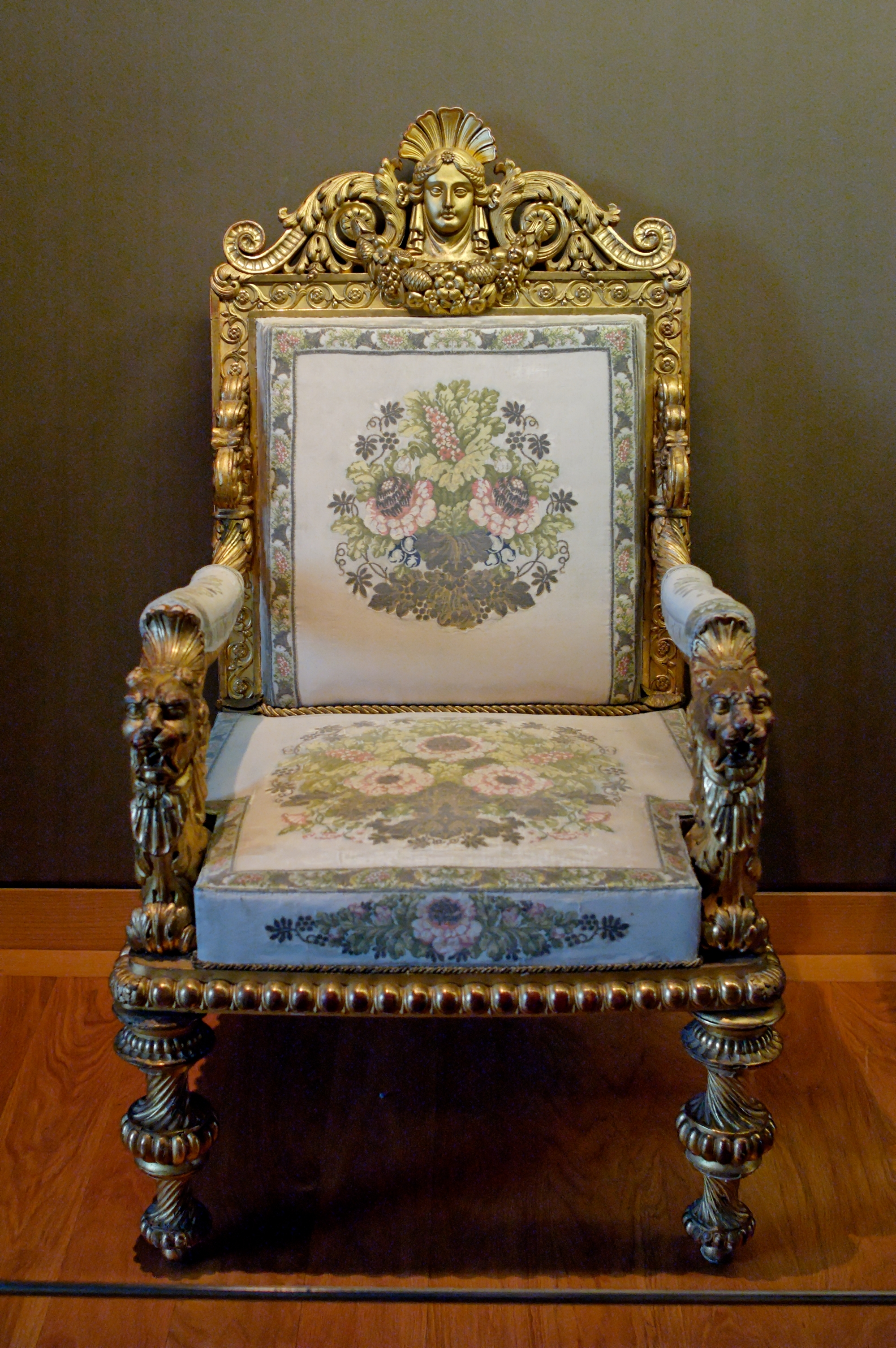 Armchair, one of a pair.